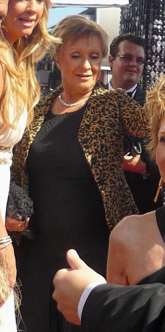 Actress Cloris Leachman at 2008 Emmy Awards.